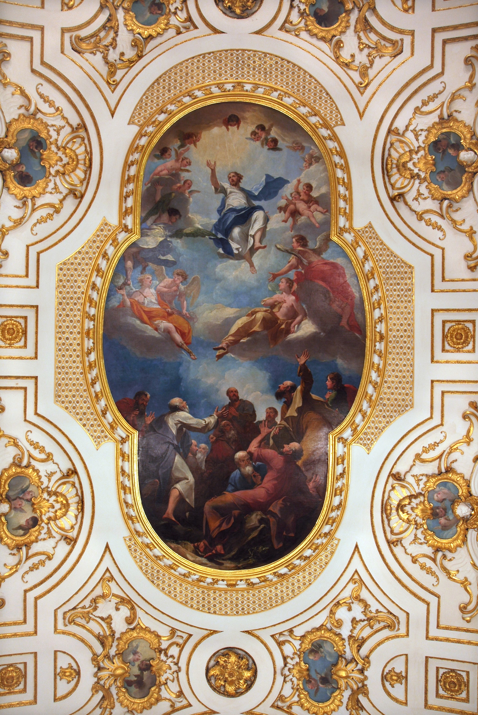 Baroque ceiling in St Michael and All Angels parish church, Great Witley, Worcestershire, England. The painting is the Ascension of Jesus Christ by Antonio Bellucci.